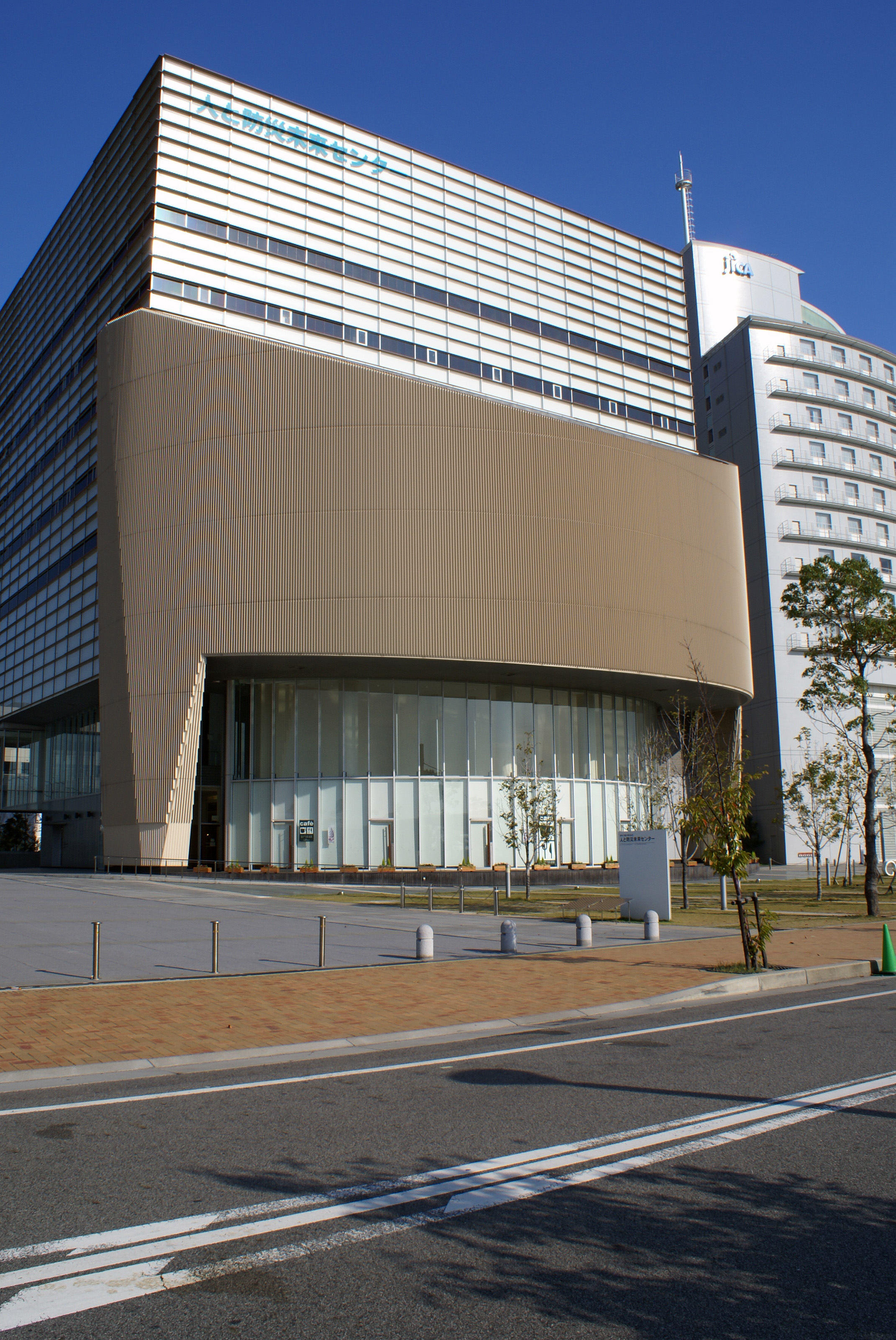 Disaster Reduction and Human Renovation Institution's "The Human Renovation Museum" in HAT Kobe, Kobe, Hyogo, Japan